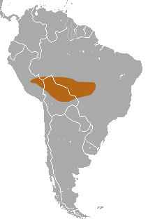 Marmosops bishopi range